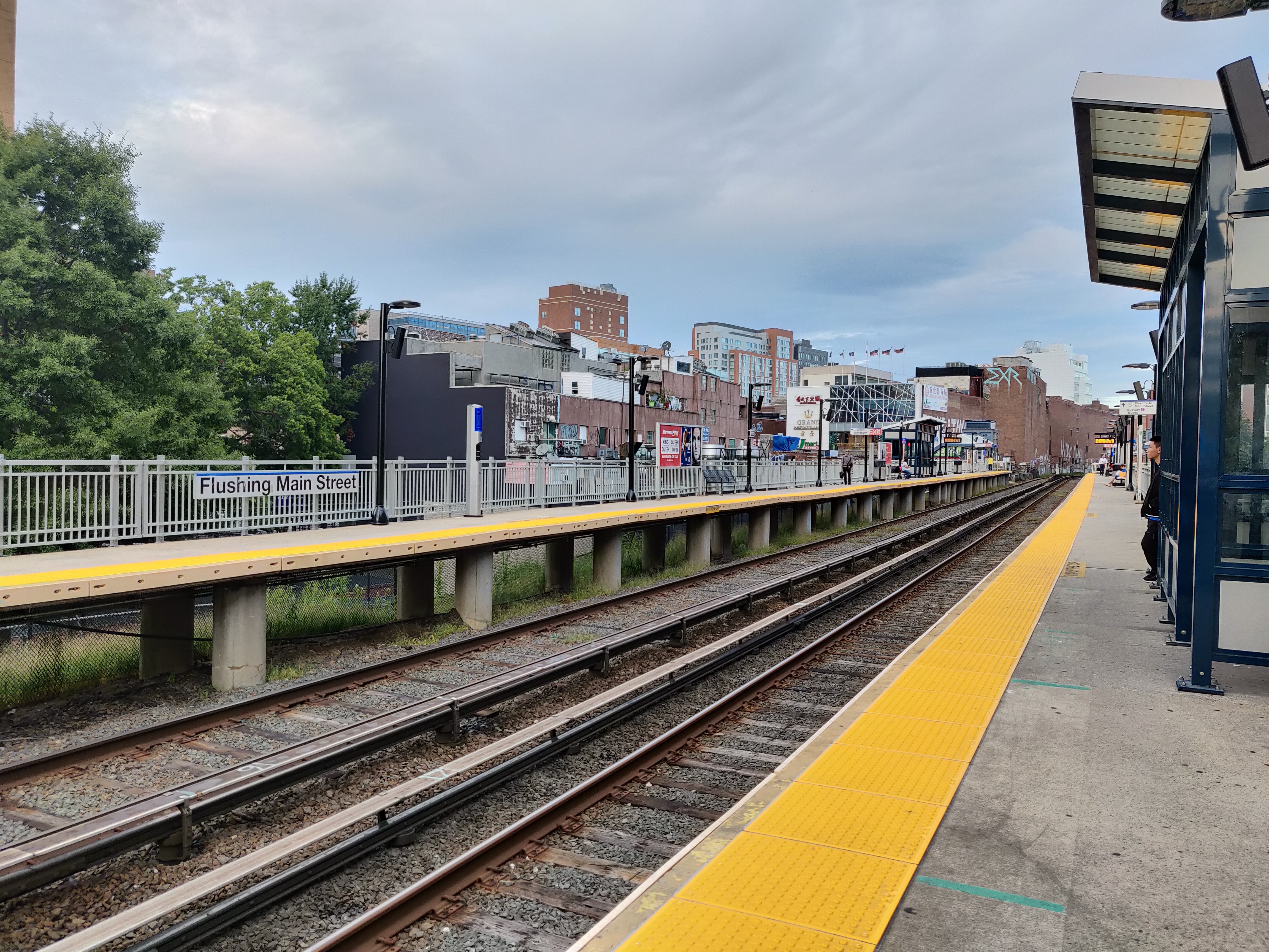 A view of the platforms at the "Flushing-Main Street" Long Island Rail Road station in Queens, New York. The photographer is facing east on the east-bound platform ("B" Platform).